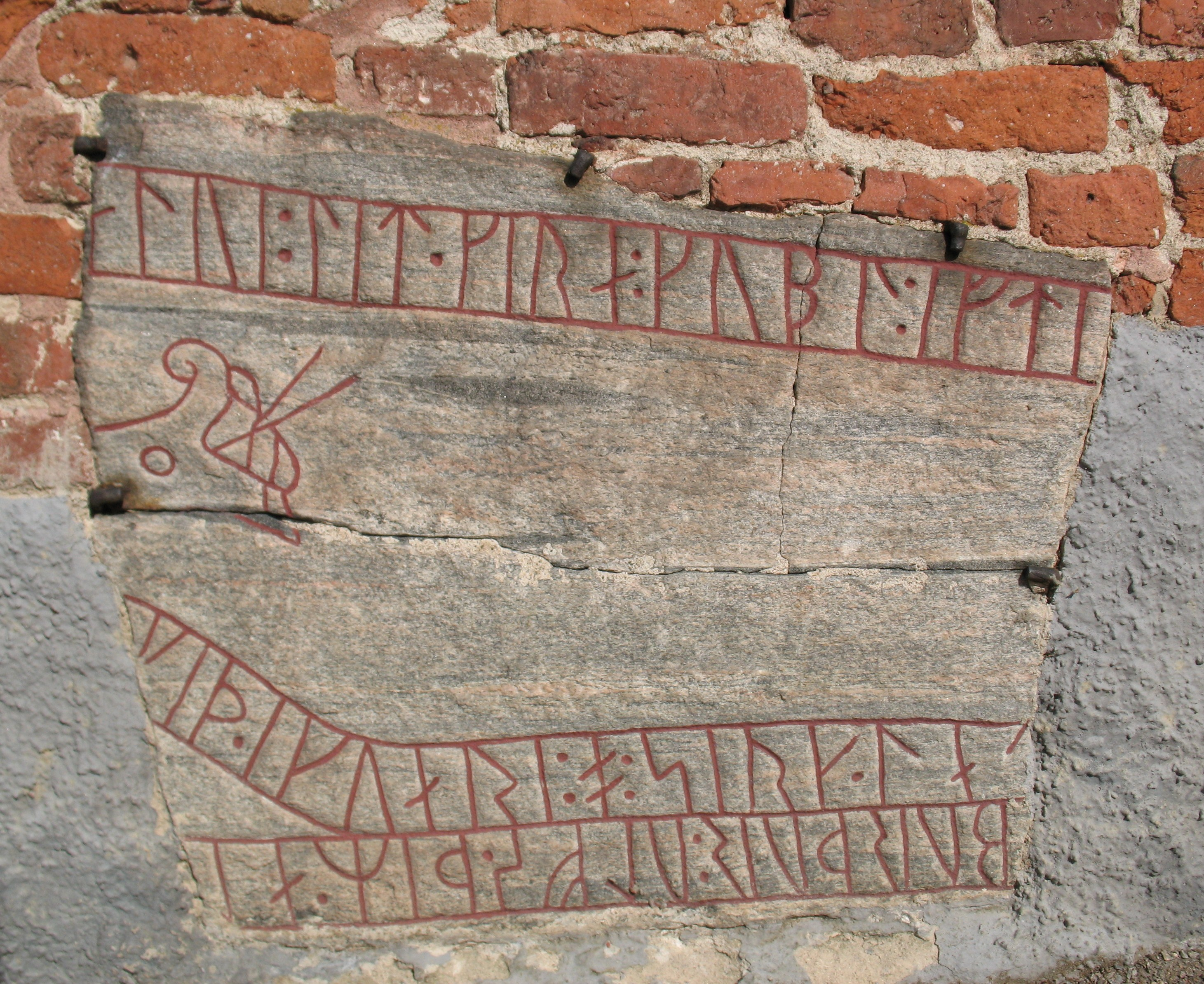 Runestone Sö 281 which is in the wall of Strängnäs Cathedral.